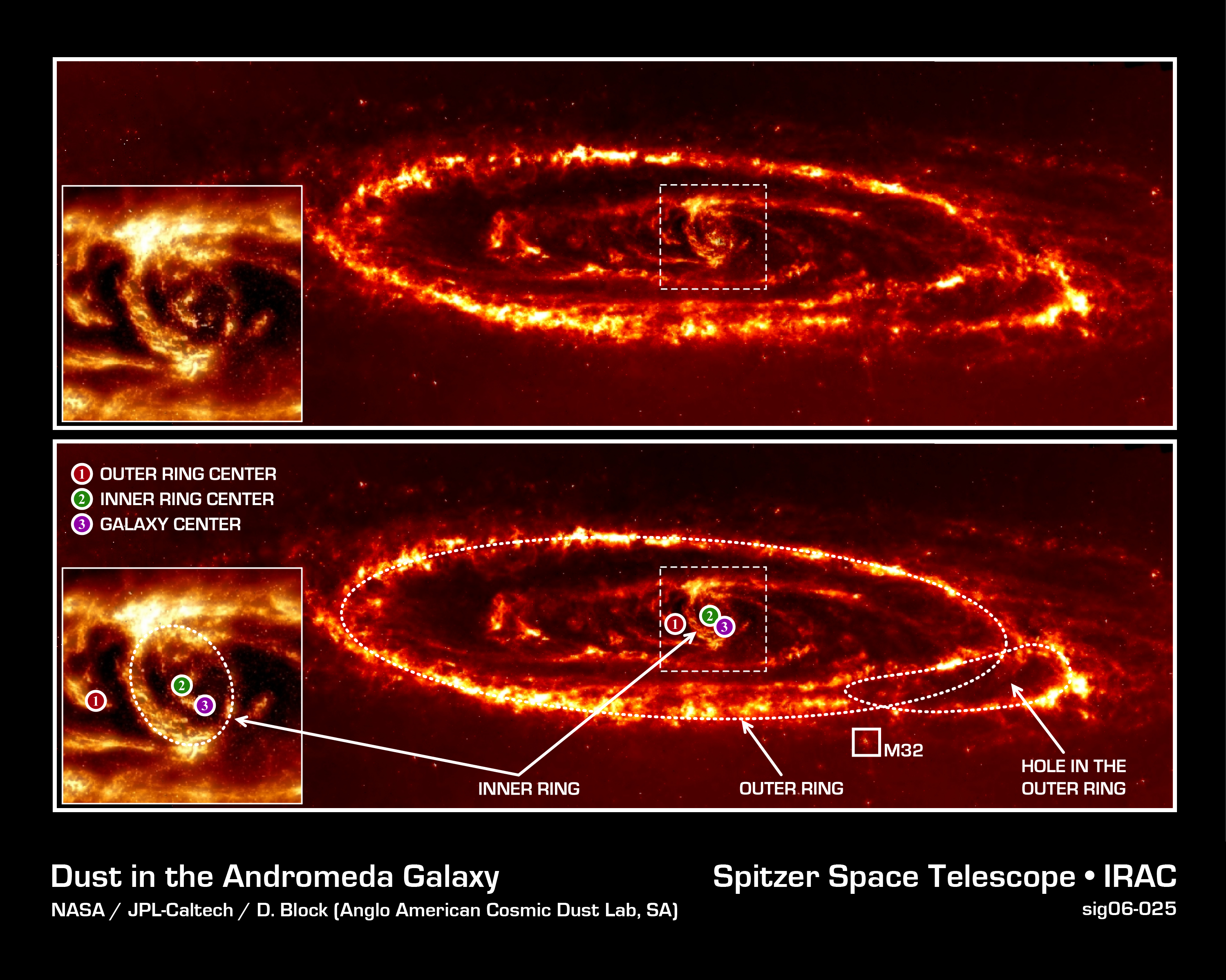 Astronomers have new evidence that the Andromeda spiral galaxy was involved in a violent head-on collision with the neighboring dwarf galaxy Messier 32 (M32) more than 200 million years ago. Infrared photographs taken with NASA's Spitzer Space Telescope revealed a never-before-seen dust ring deep within the Andromeda galaxy. When combined with a previously observed outer ring, the presence of both dust rings suggests that M32 plunged through the disk of Andromeda along Andromeda's polar axis approximately 210 million years ago. This image was obtained by the Infrared Array Camera (IRAC) at a wavelength of 8.0 microns.